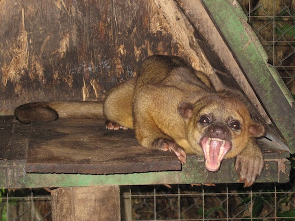 Image of a yawning Kinkajou at a shelter for wounded and abused animals near Sámara, Costa Rica. Taken in the summer of 2009.